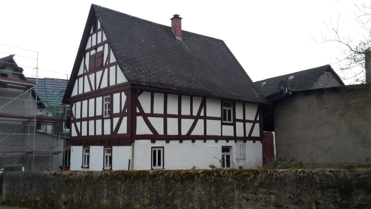 Burgsolms, Wintersburgstraße 3